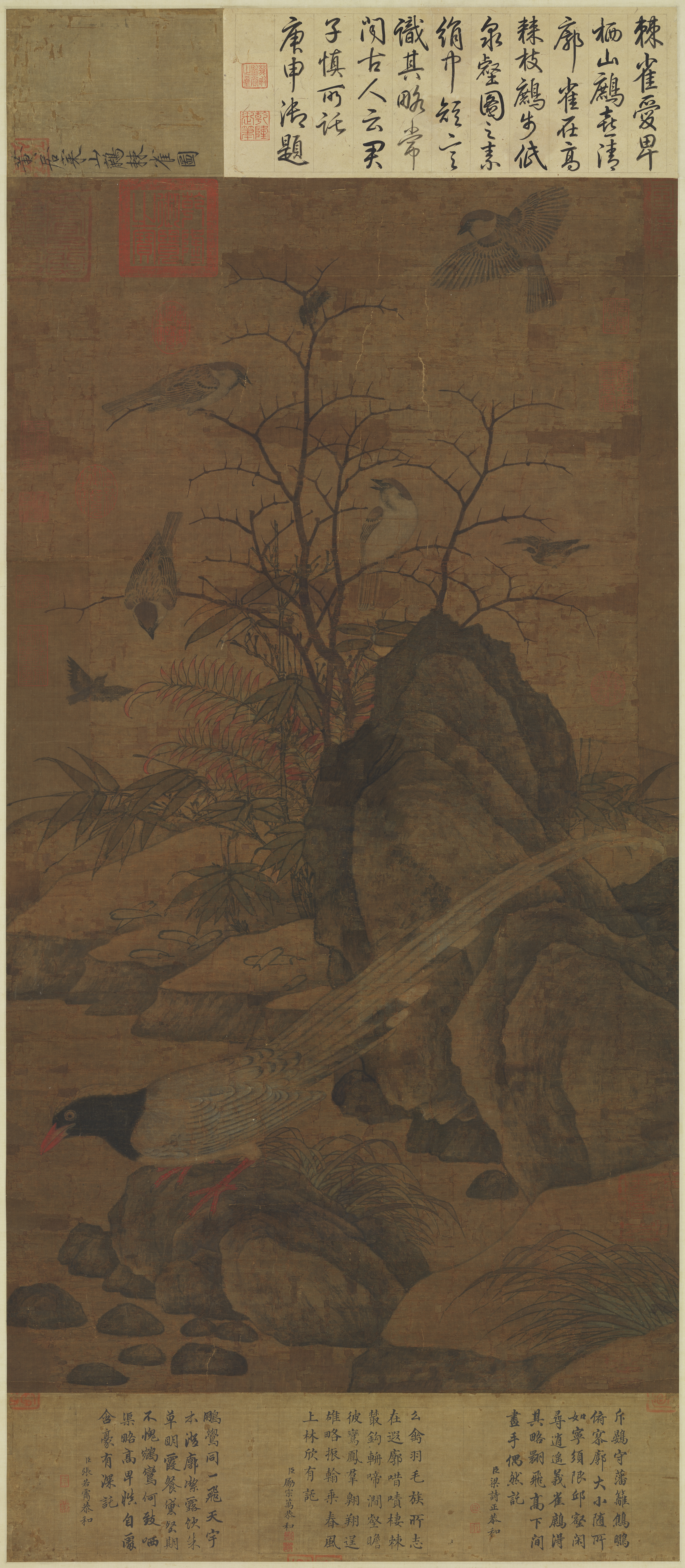 Mountain Magpie, Sparrows and Bramble, by Huang Zhucai, 10th century, ink and color on silk.